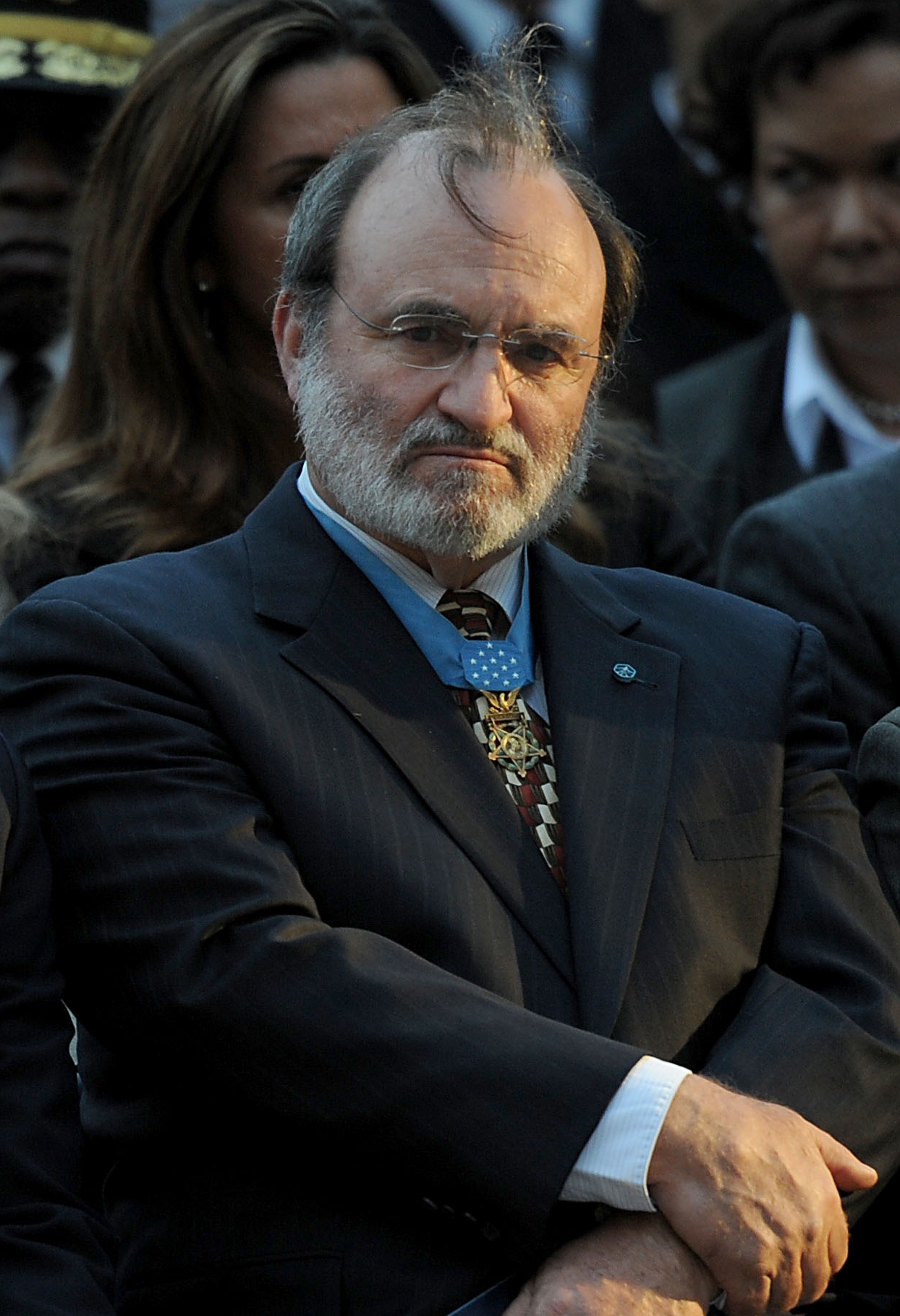 Medal of Honor recipient Brian M. Thacker, USA, at the Medal of Honor flag presentation ceremony for Master-at-Arms 2nd Class (Seal) Michael A. Monsoor at the Navy Memorial in Washington, D.C.